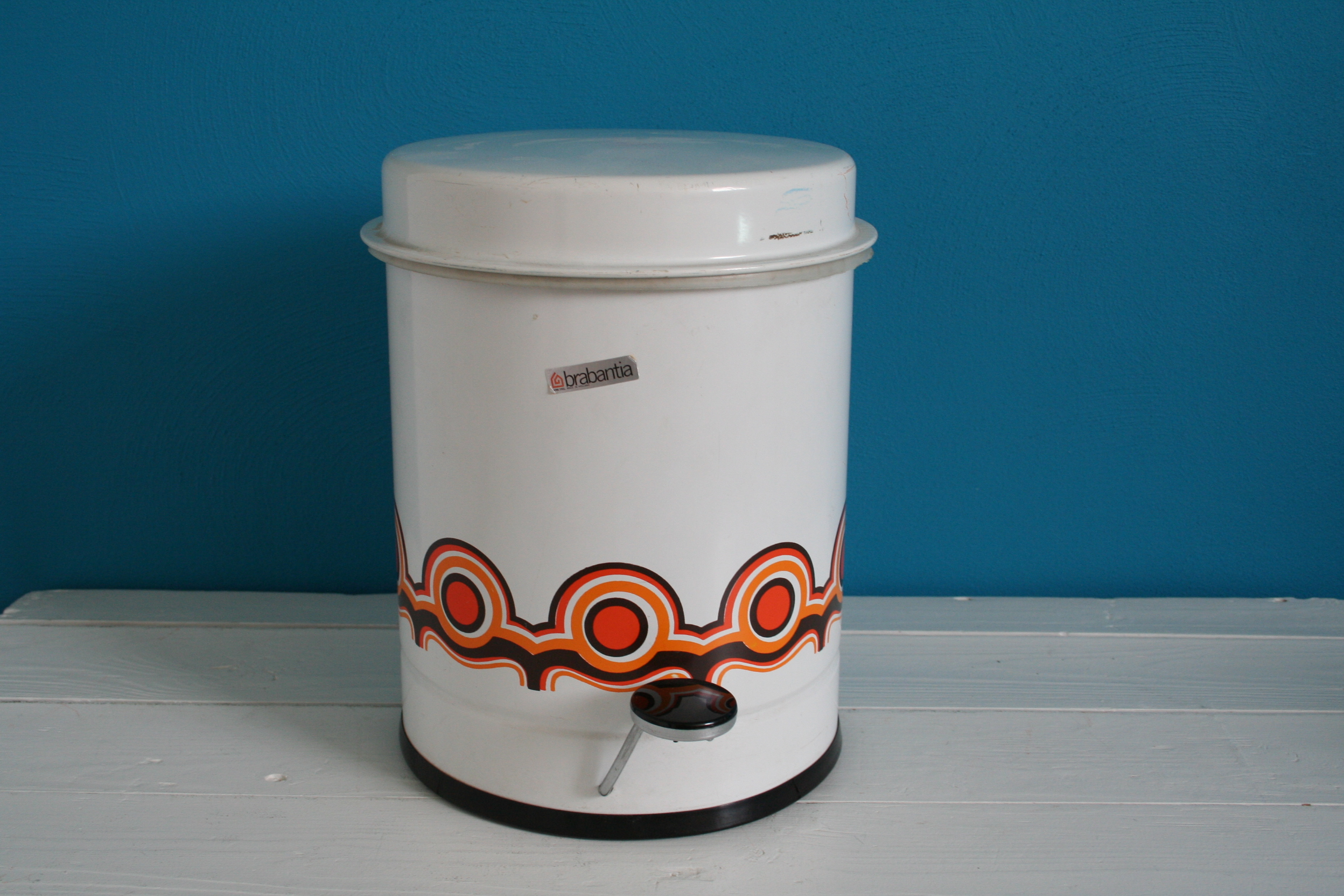 Vintage Brabantia from the Museum